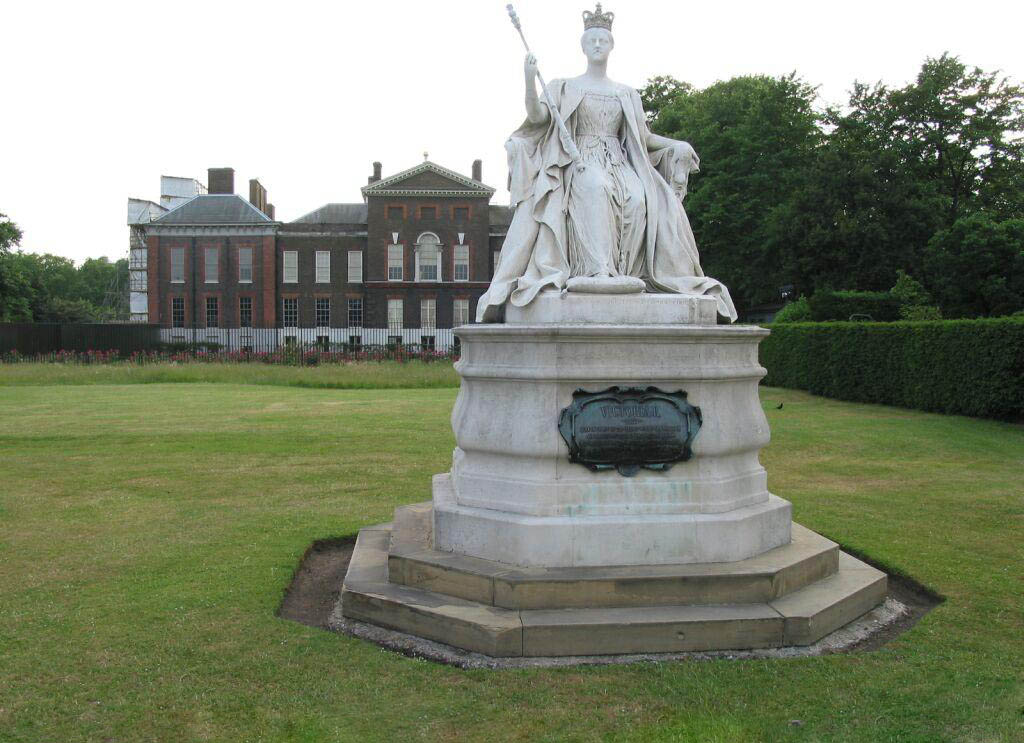 Queen Victoria's statue at Kensington (When Princess Louise sculpted a statue of the Queen, portraying her in Coronation robes, the press claimed that her tutor, Sir Joseph Edgar Boehm, was the true creator of the work [1])